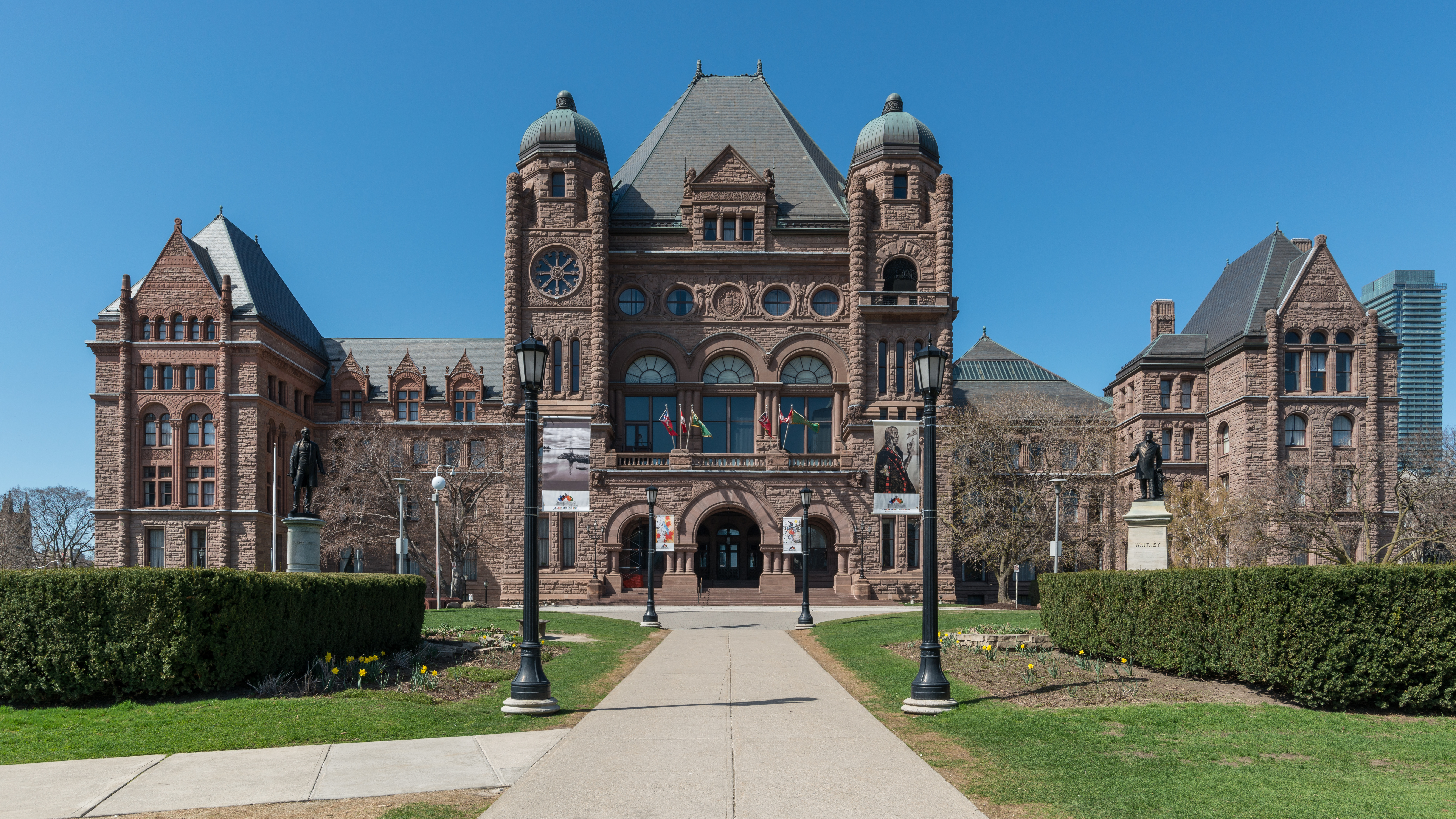 A south view of Ontario Legislative Building, Toronto